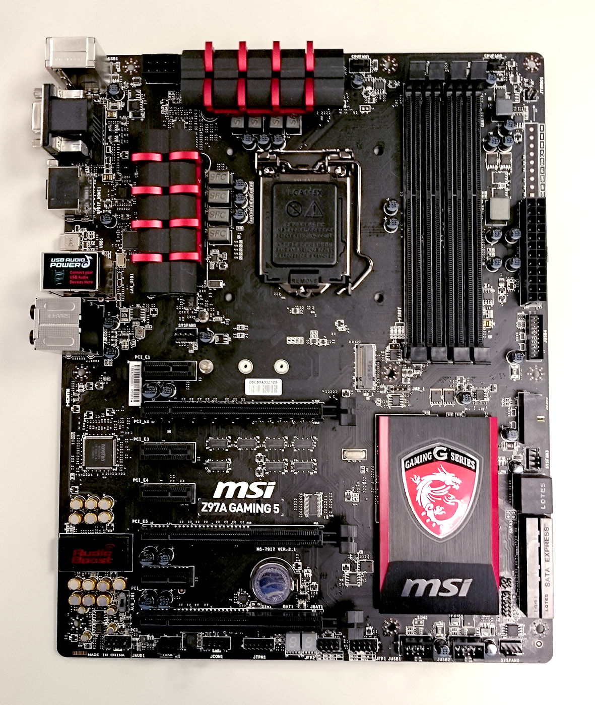 An MSI Z97A GAMING 5 motherboard ver. 2.1